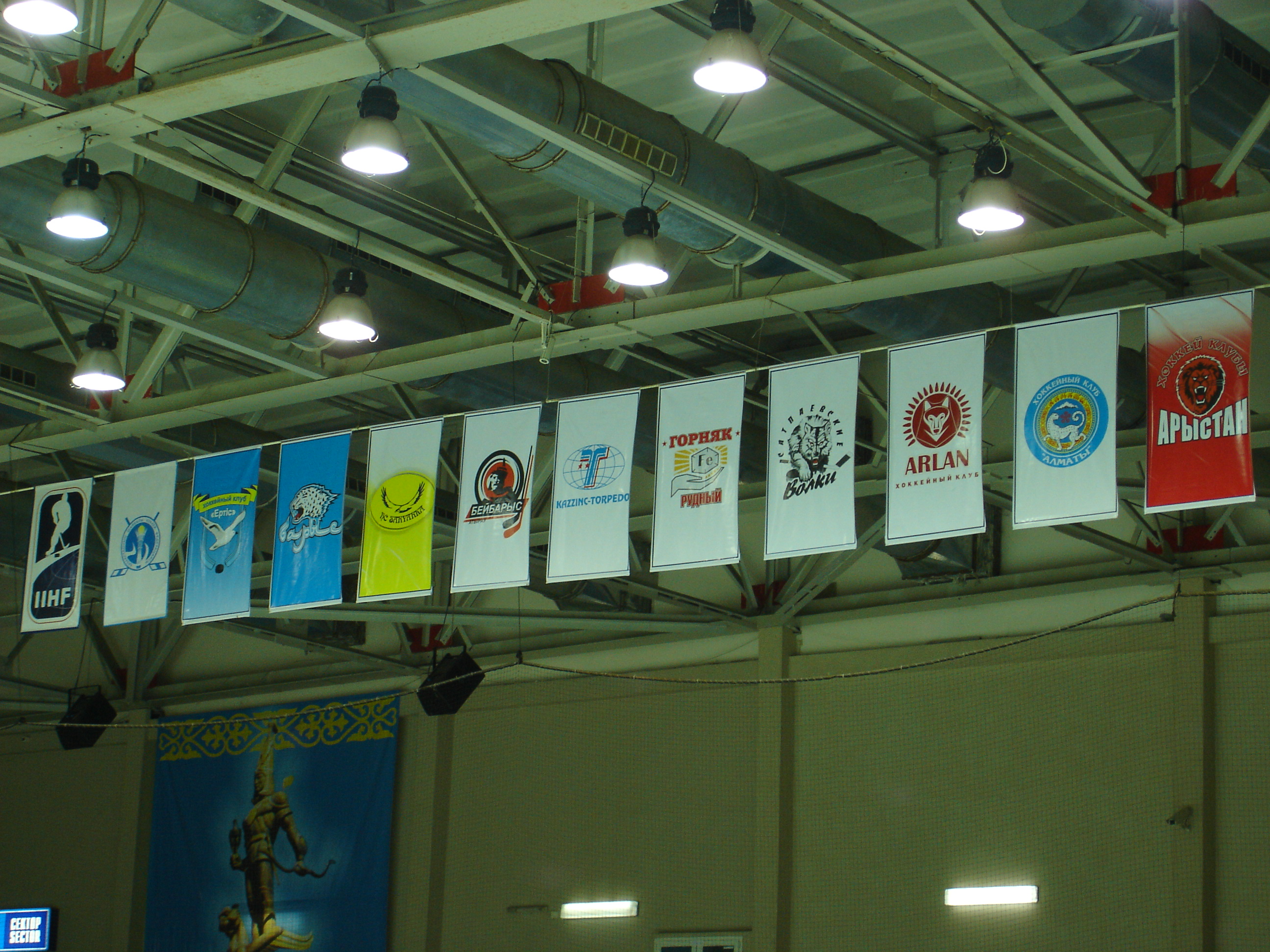 Ice hockey stadium Astana, Pavlodar, Kazakhstan. Flags of the teams-participants of Kazakhstan Championat 2011-2012